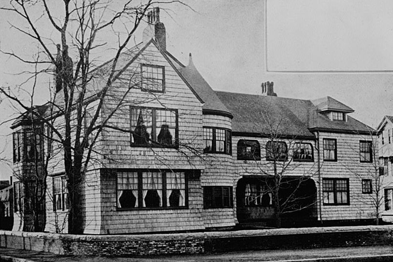 Mark Fiske Stoughton House, 90 Brattle Street, Cambridge, Massachusetts (1882-83), Henry Hobson Richardson, architect.